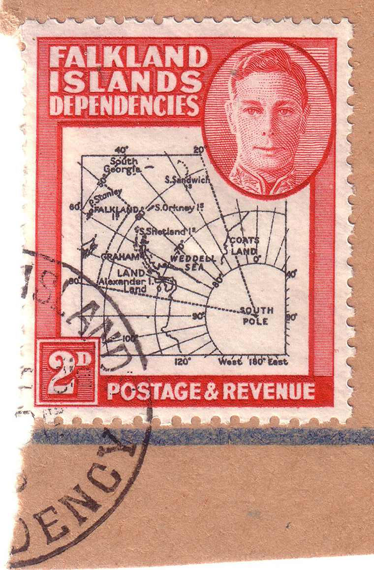 Stamp of Falkland Islands Dependencies, 1946, 2d, scott#1L3.